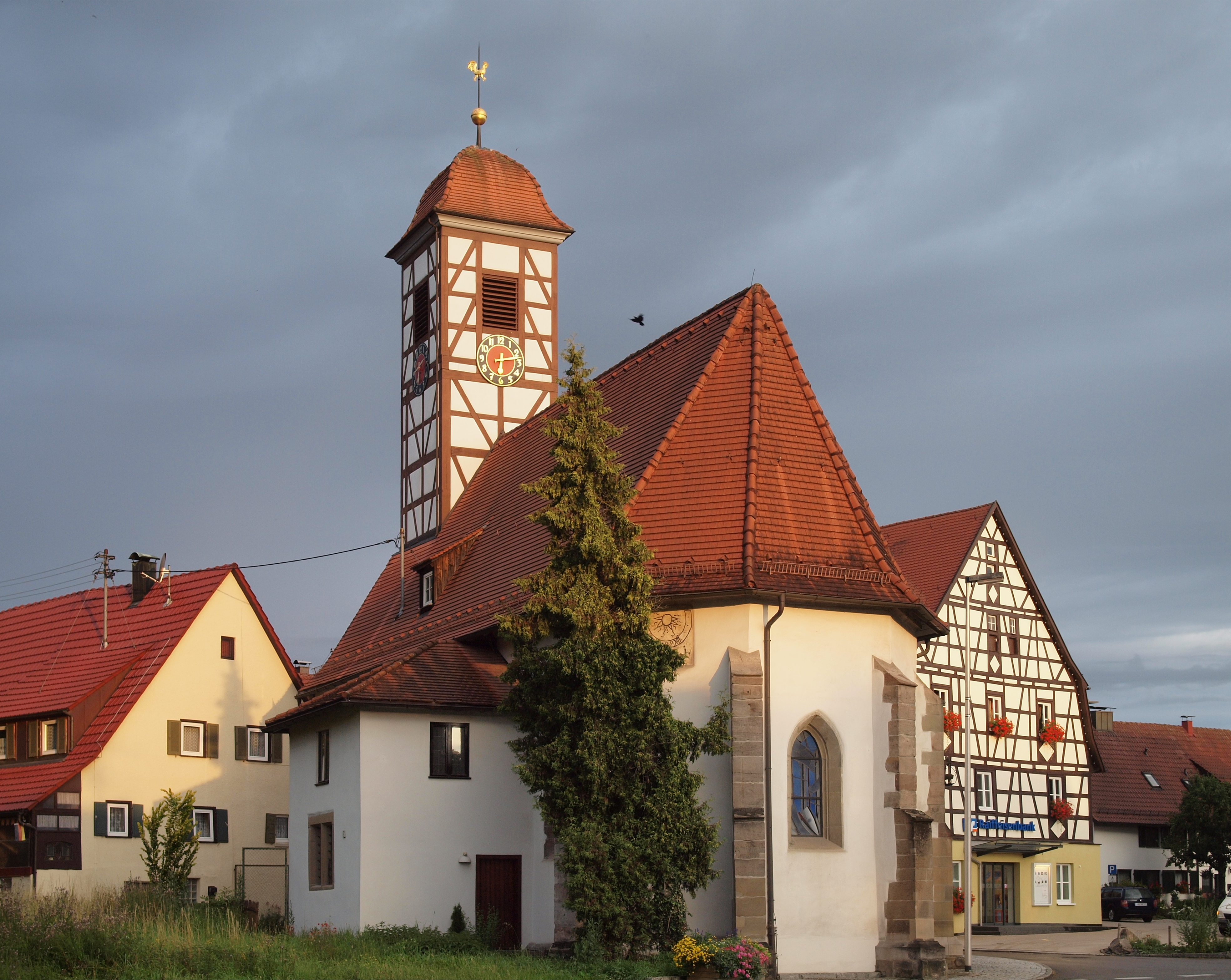 Church in Allmersbach im Tal, Germany